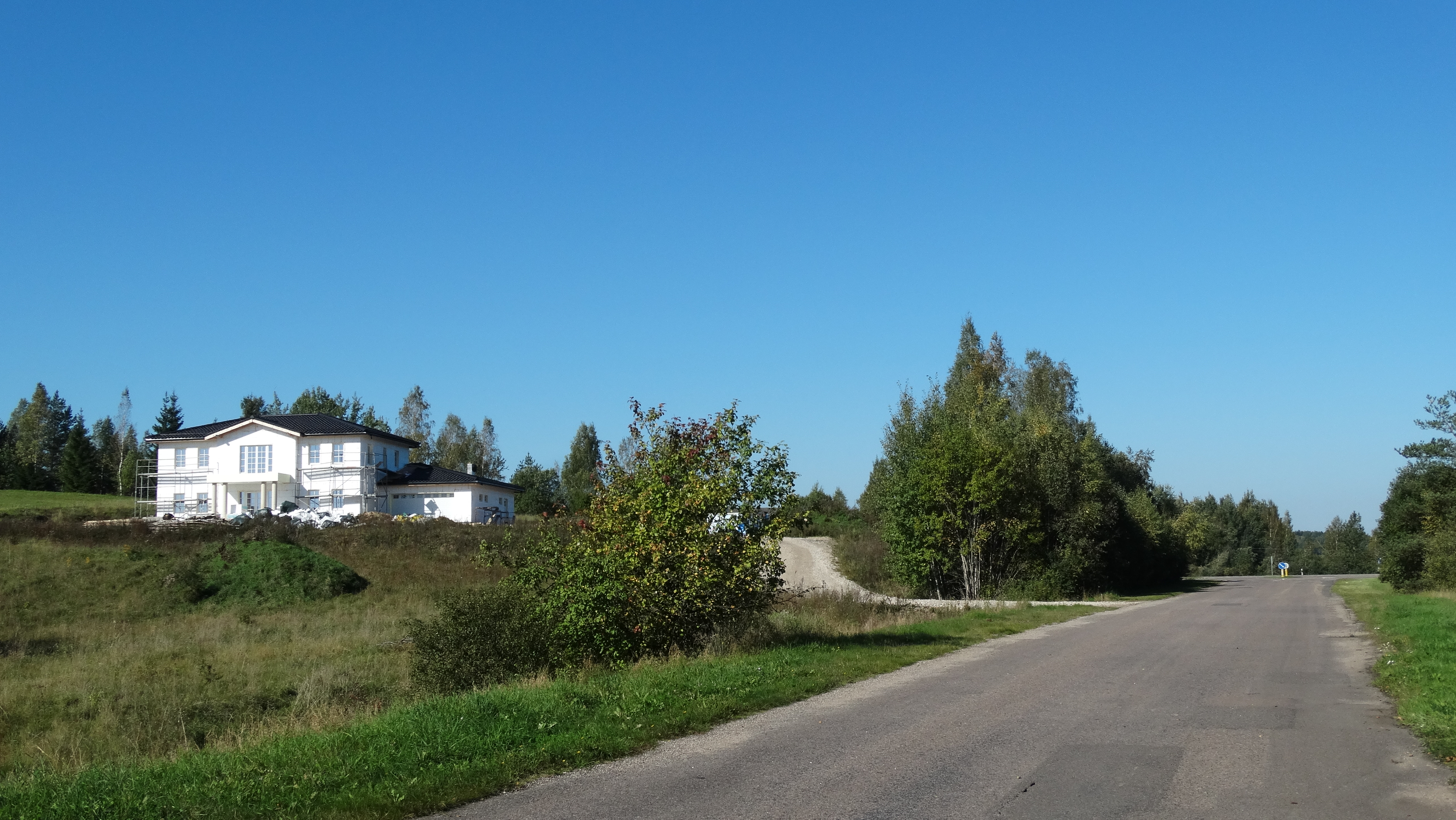 Railway station, Utena district, Lithuania